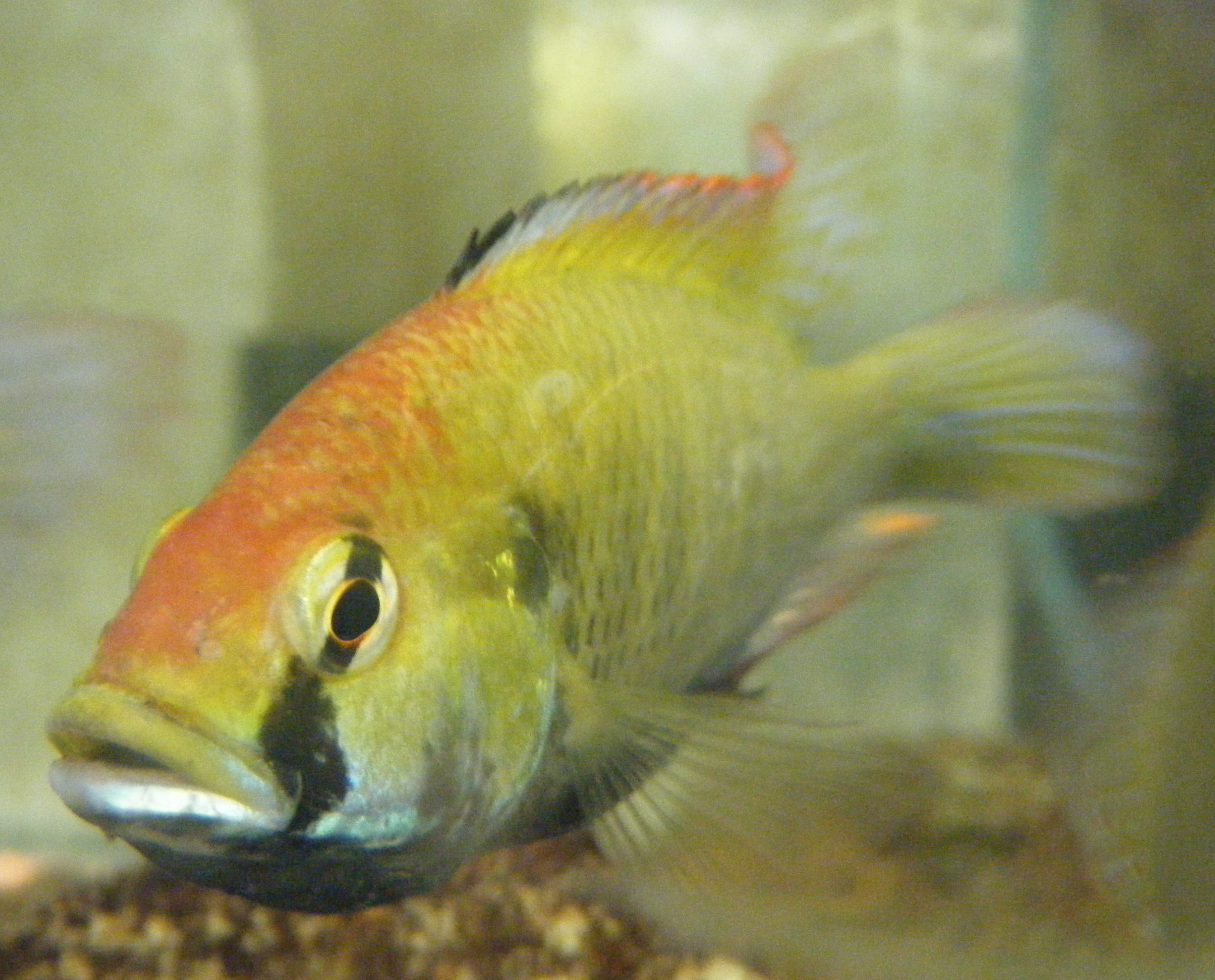 Astatotilapia calliptera male, wild caught male from Lake Chilingali